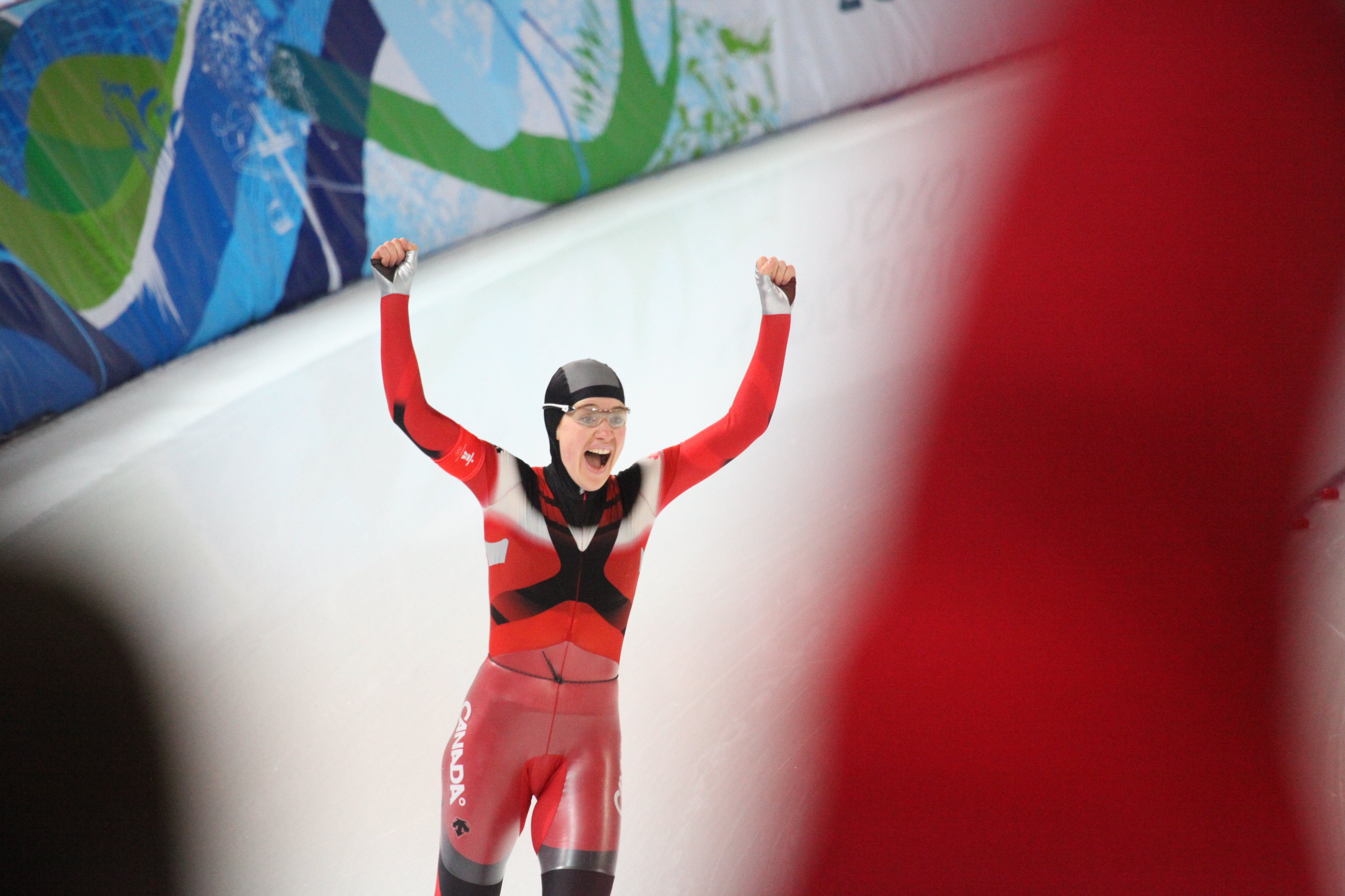 Women's 5000 meter finals at Vancouver 2010 Olympics